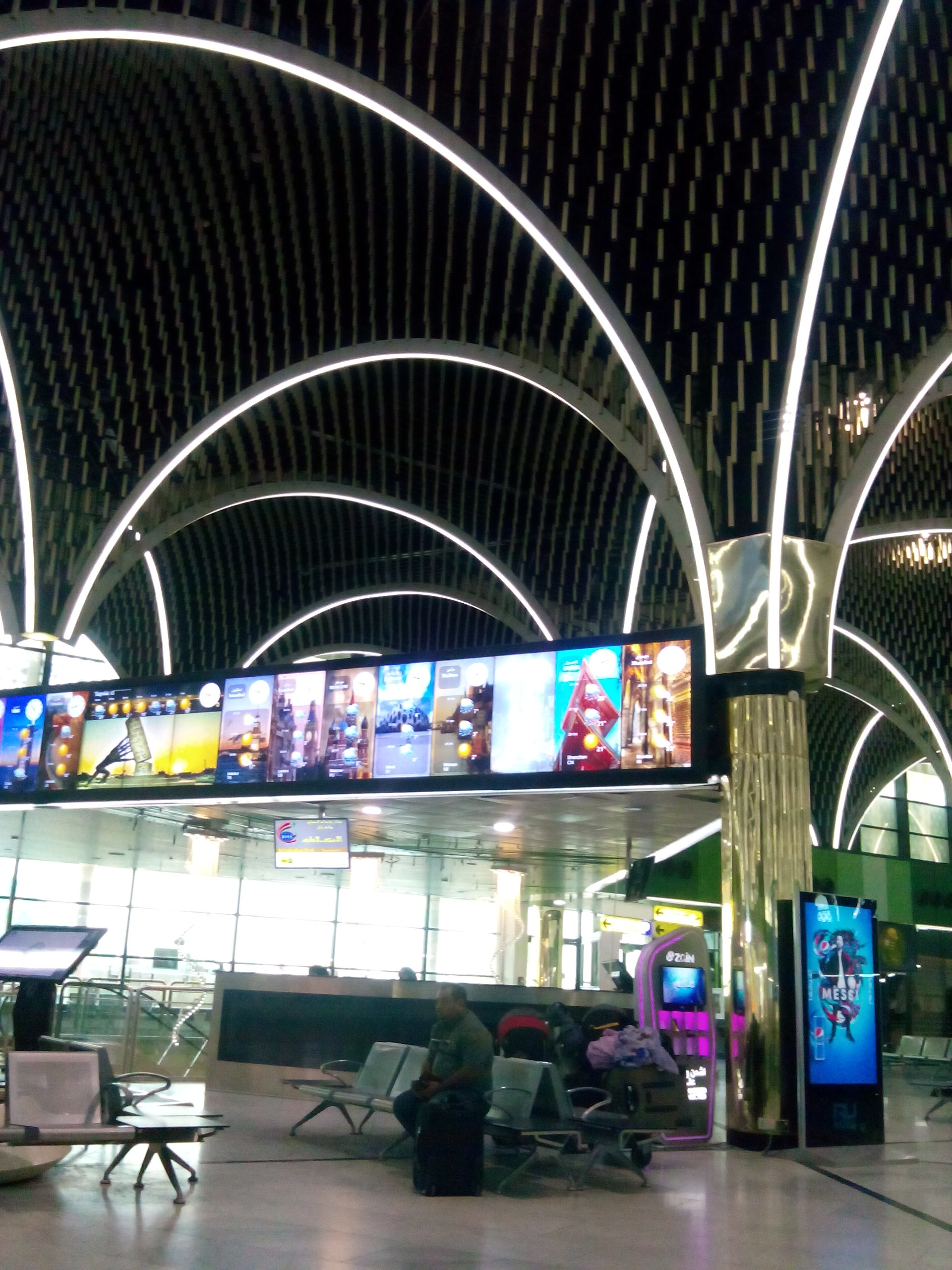 The Baghdad International Airport (formerly Saddam International Airport). The Baghdad airport was severely damaged during the war.